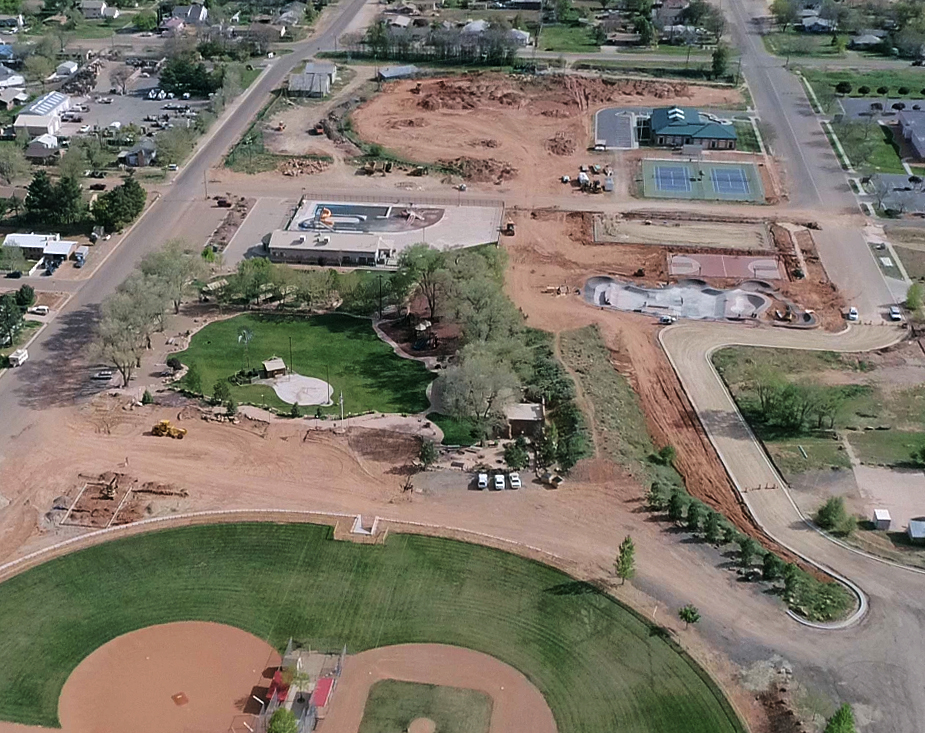 Aerial photograph of Jacob Hamblin Park, Kanab Utah. Taken April 16, 2017